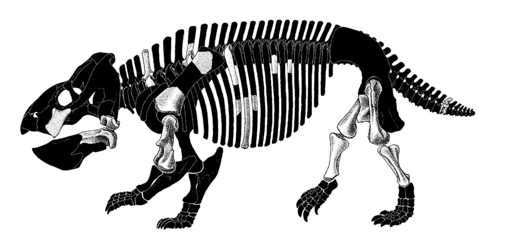 A preliminary sketch (2008) of the reconstruction of an extinct dicynodon Lisowicia bajani